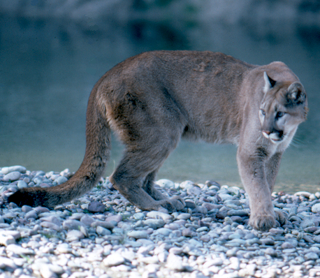 A Mountain Lon in Grand Teton National Park standing on cobbles next to a stream